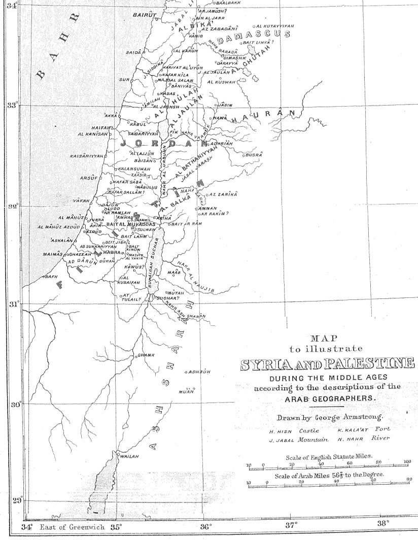 Map of Palestine during the Middle Ages according to the description of the Arab geographers, drawn by Geo. Armstrong, from Palestine Under the Muslims: A Description of Syria and the Holy Land from AD 650 to 1500, by Guy Le Strange, London 1890